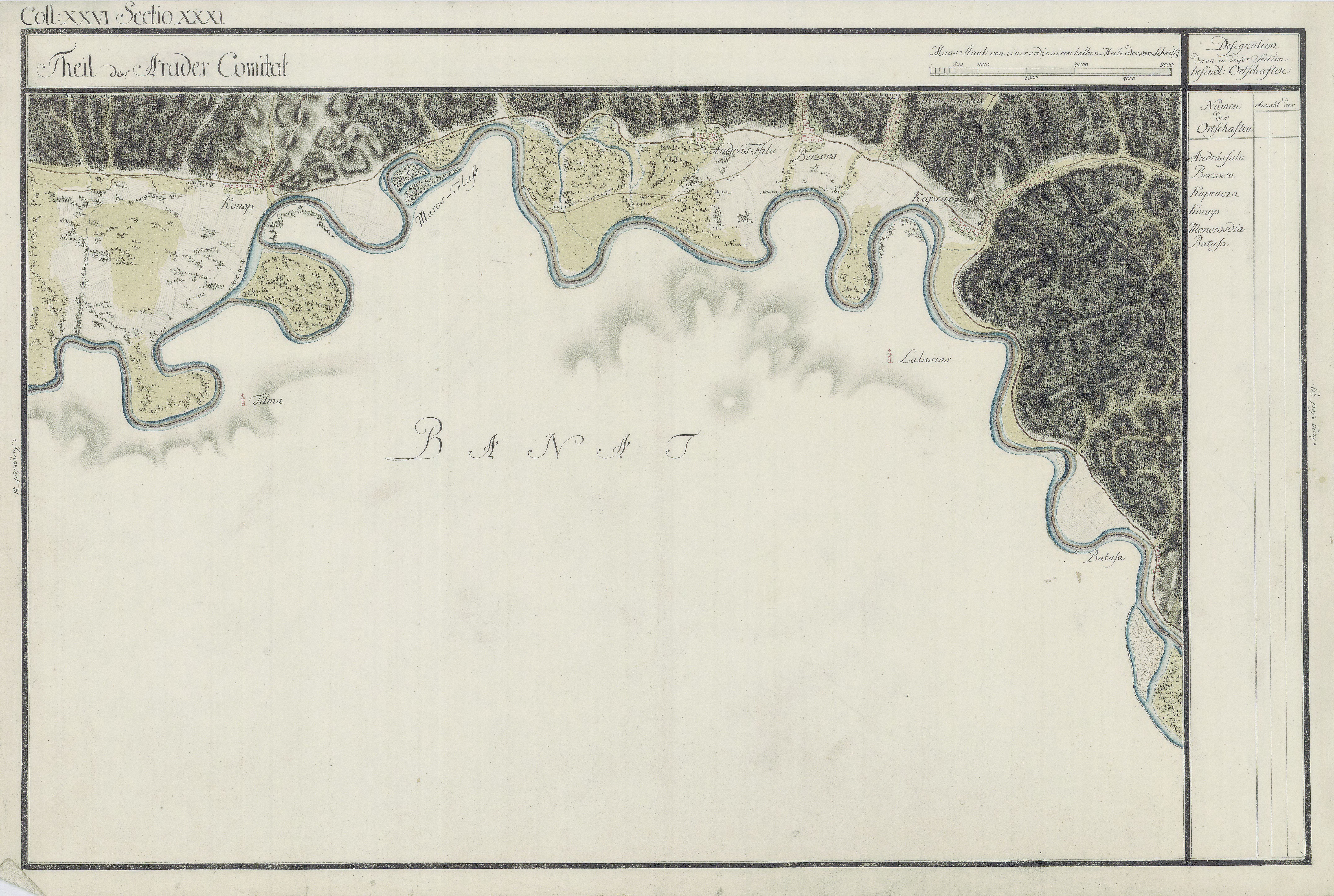 Arad County, 1782-85. Josephinische Landesaufnahme pg.26-31